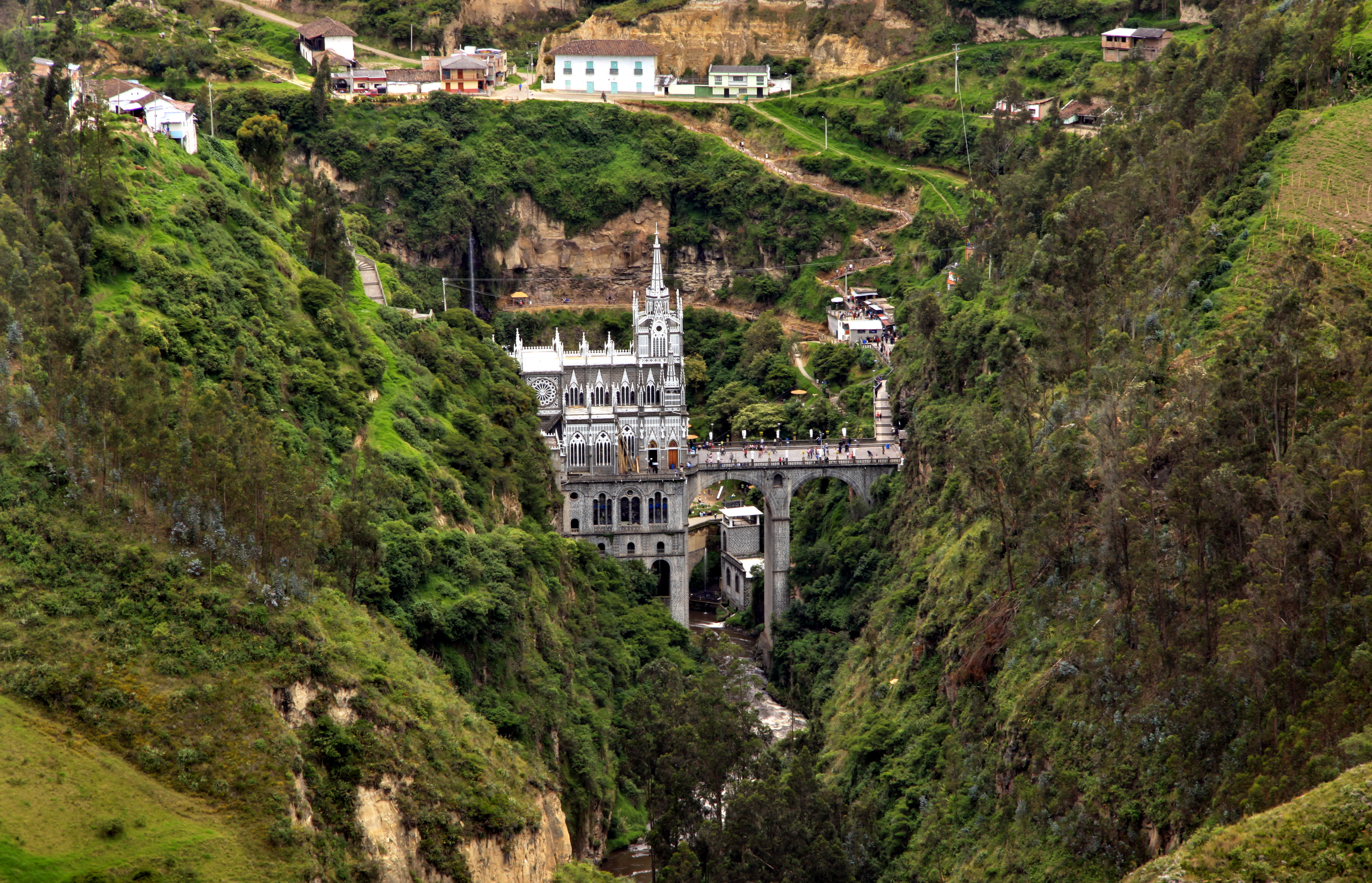 Please, have this description accessible to all by translating it in different languages.